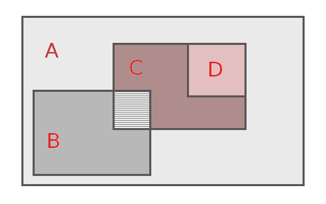 Environmental accounting figure. A: Accounting, B: Traditional Accounting, C: Environmental Accounting, D: Ecological Accounting.